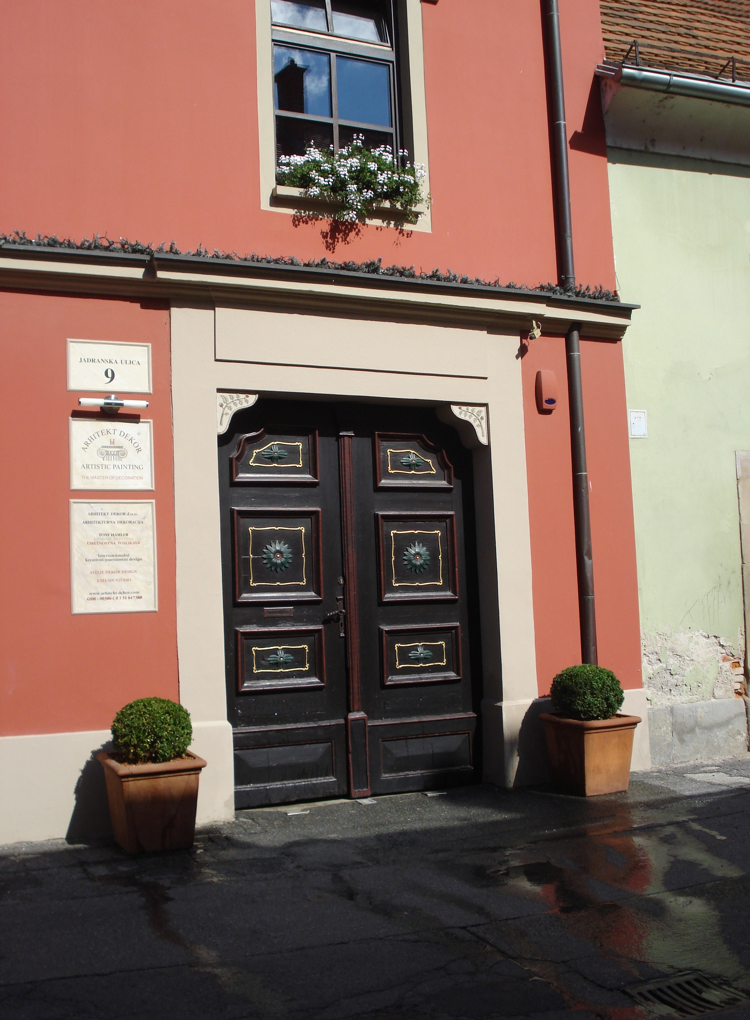 Image Type: jpeg (The JPEG image format) Width: 1504 pixels Height: 2044 pixels Camera Brand: SONY Date Taken: 2010:08:08 16:12:34